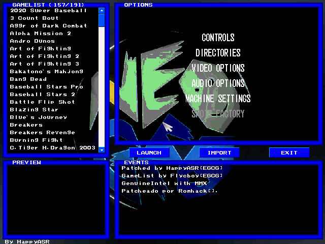 The first Neo-Geo Emulator since 1998 approx. Developers by Anders Nilsson and Janne Korpela